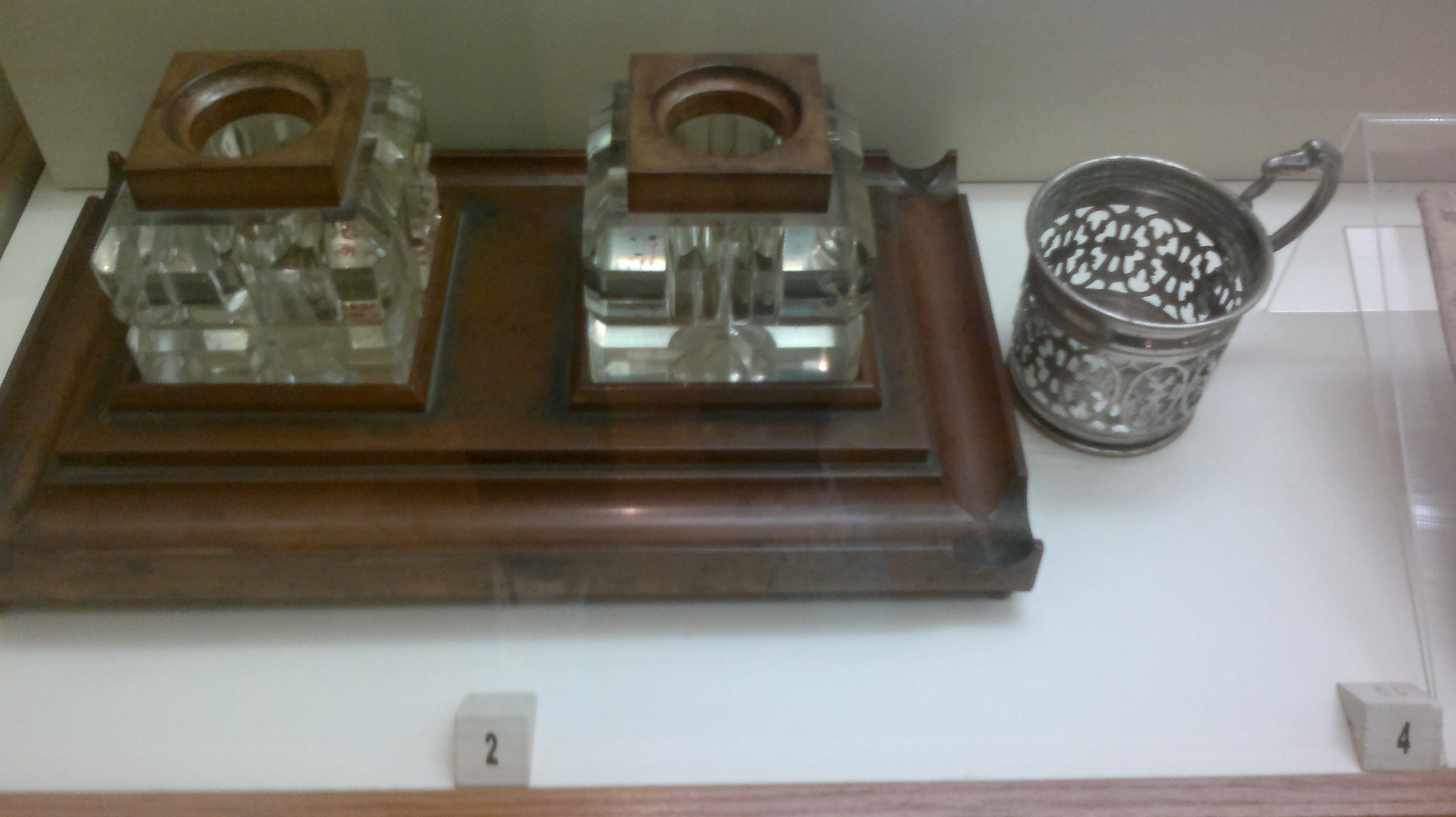 Ink pot and glassholder owned by A. Yusifzade. Museum of History of Azerbaijan.